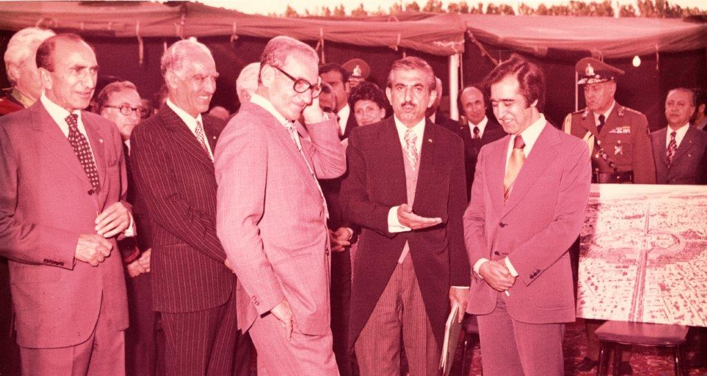 Dariush Borbor, Architect, Urban Planner, Presentation of the Urban Renewal of Mashhad City centre to the Shah, Mashhad, Iran,1968: present, Alam (Minister of Court), Eghbal (Chief Executive of NIOC), Valian (Governor)